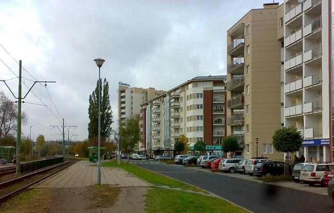 Poznan, Polanka District.